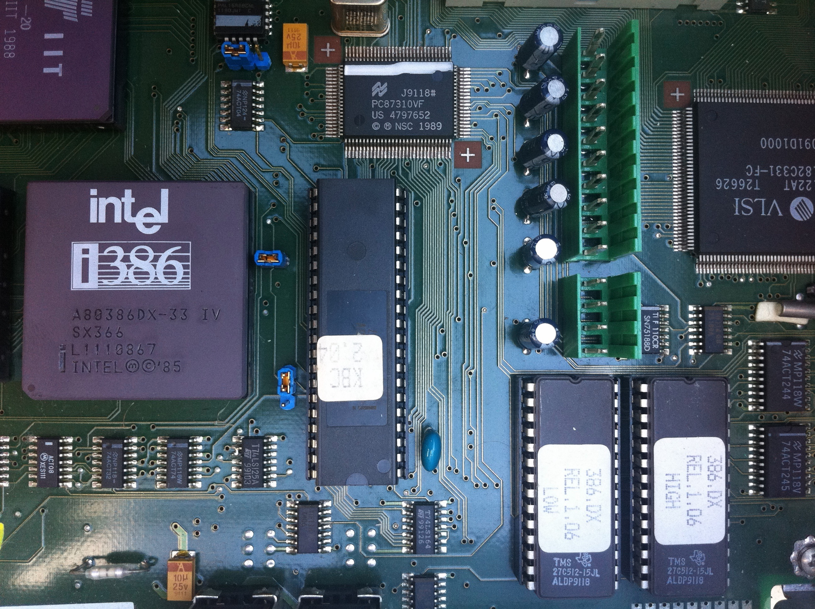 386 dx 20 mhz processor